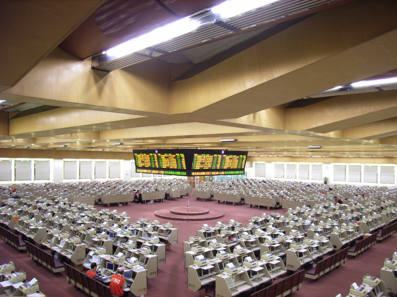 Hong Kong Exchange Trade Lobby before renovation 香港交易所 交易大堂